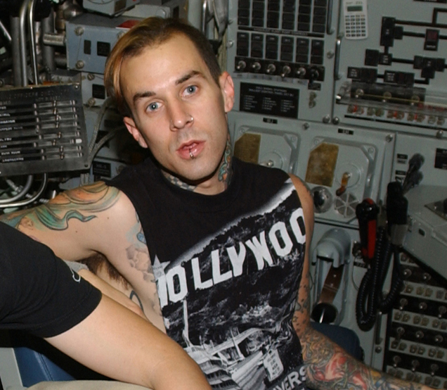 Travis Barker aboard the nuclear-powered attack submarine USS Memphis (SSN 691) in Bahrain cropped from original image Image:Blink182.jpg. Morale Welfare and Recreation, Naval Personnel Command Millington, Tenn. and MWR, NSA Bahrain brought Blink-182 to Bahrain to perform for Sailors, Marines and their families.